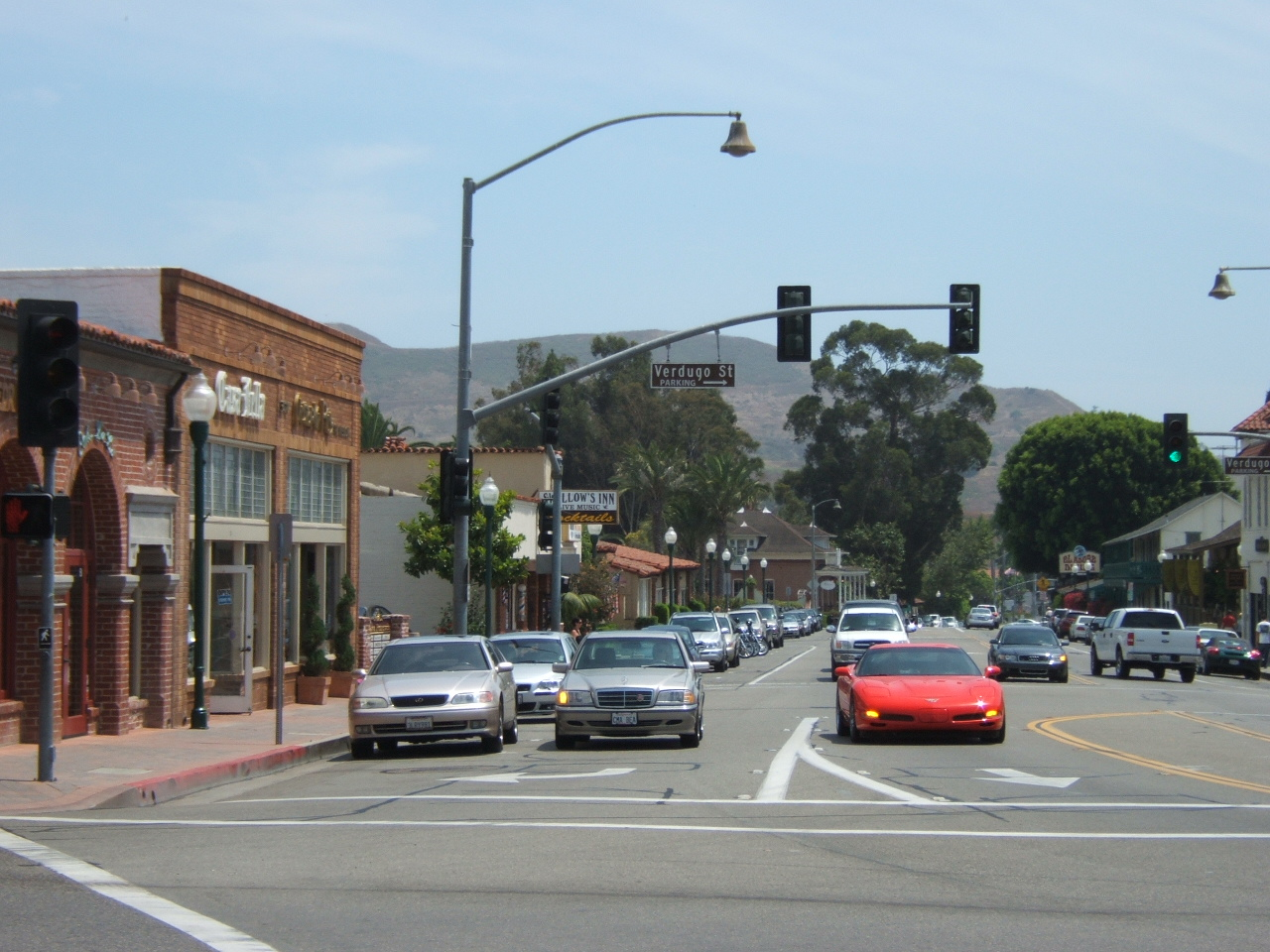 Crossing in the center of San Juan Capistrano, California